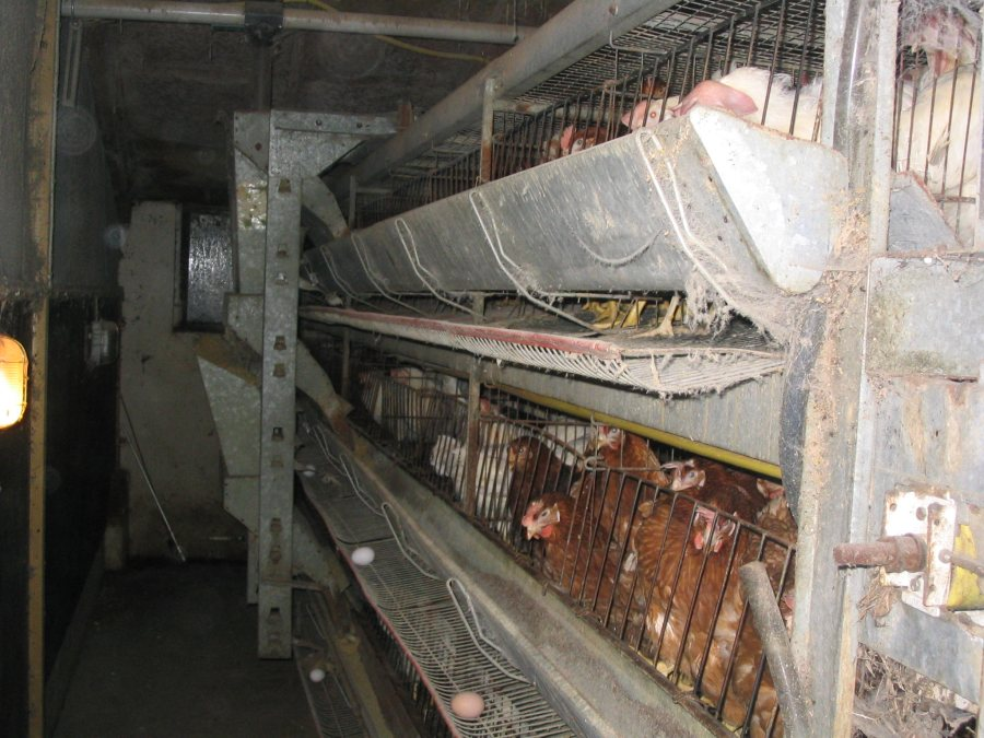 laying battery